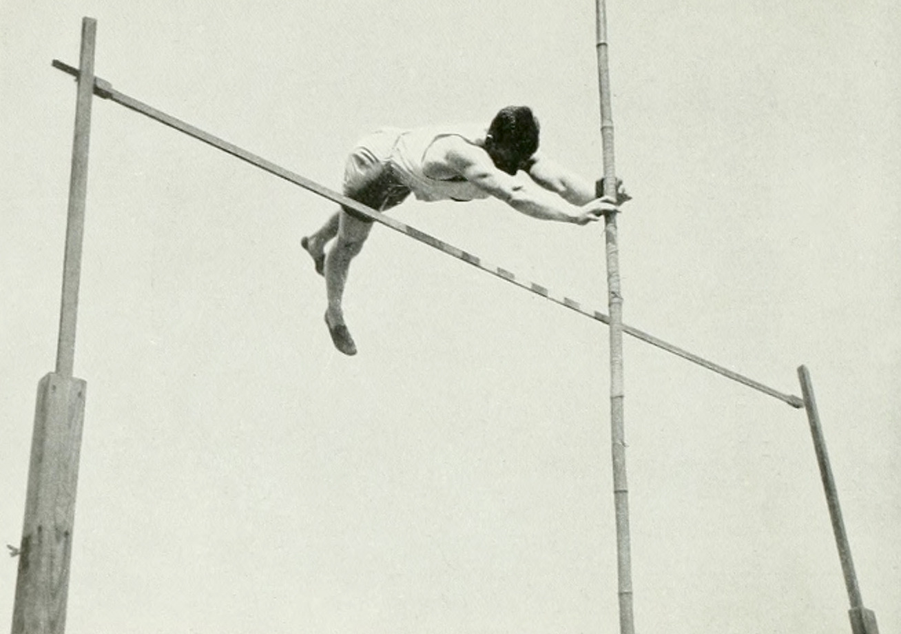 Bertil Uggla during the pole vault competition at the 1912 Summer Olympics